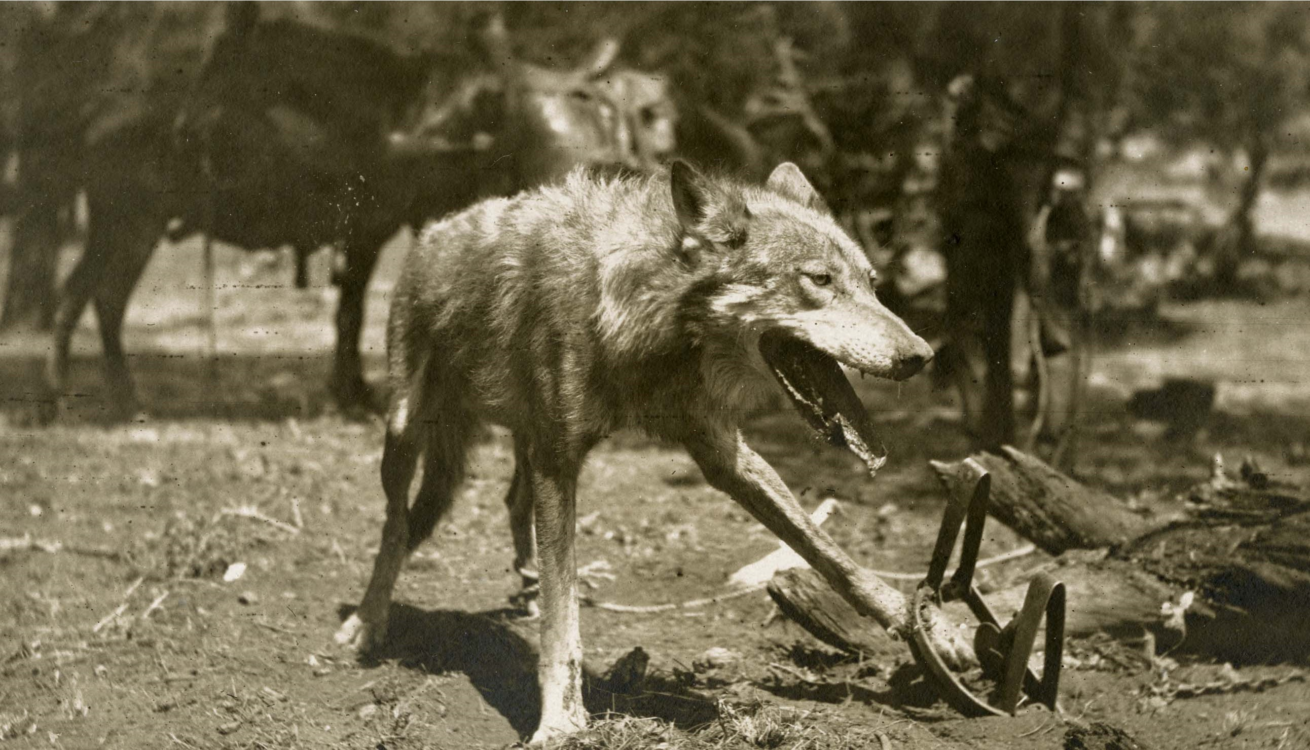 Creator: Clay Hunter and Don Stroenson Local number: SIA2011-1385 Summary: RU 007267, Box 5, Folder 12; Photograph taken for Vernon Orlando Bailey during his work as field naturalist for the United States Department of Agriculture Bureau of Biological Survey. Bailey was particularly interested in creating more humane animal traps and devoted much of his time after retirement to this cause. Dates: 1909-1918 Repository: Smithsonian Institution Archives Related blog post: Mammalogy at the Intersection of Mercy and Truth View more collections from the Smithsonian Institution. .